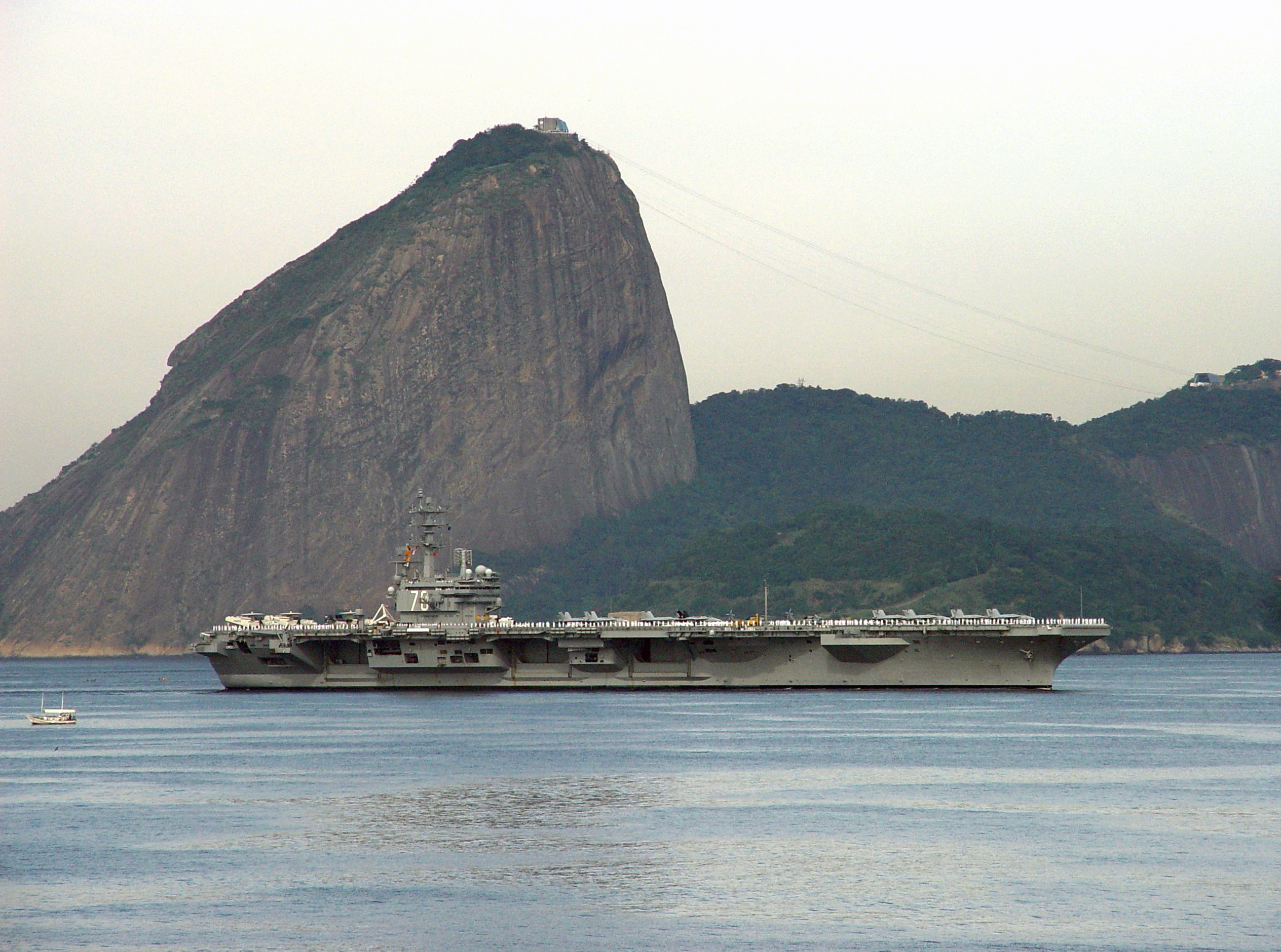 Rio De Janerio, Brazil - The U.S. Navy's newest aircraft carrier USS Ronald Reagan (CVN 76) pulls into the port of Rio De Janeiro, Brazil. This is the first foreign port visit for Reagan. After the end of the port visit, Reagan will continue her nearly two-month deployment while traveling around the tip of South America as she sails for her new homeport of San Diego, Calif.